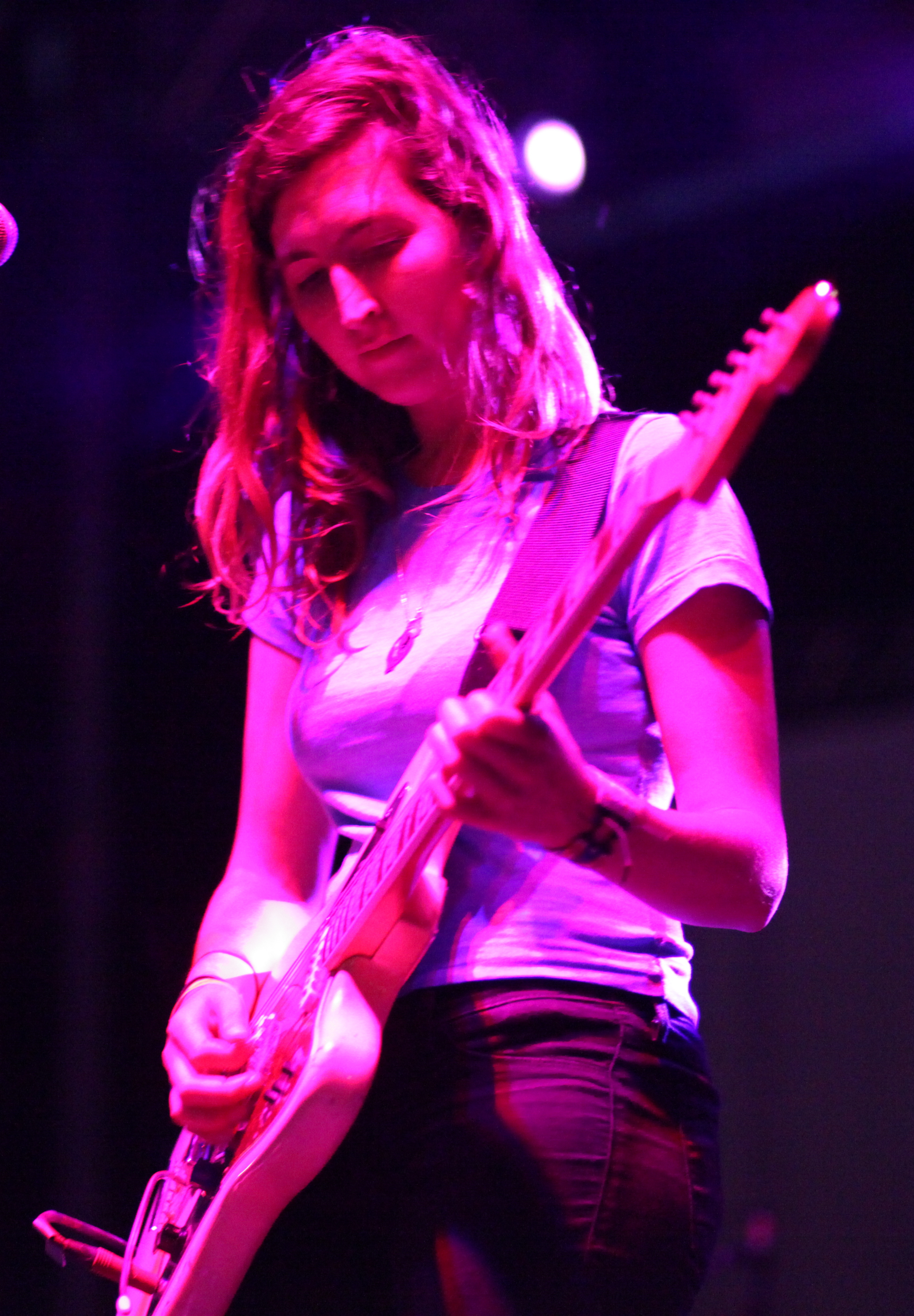 Cropped image of Emily Kokal, vocalist and guitarist of Warpaint, performing in April 2013.